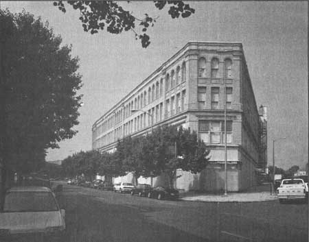 Steinbach department store in downtown Asbury Park, New Jersey, following closure of department store operation.